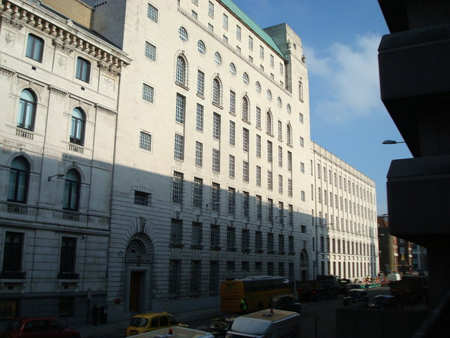 Faraday Building